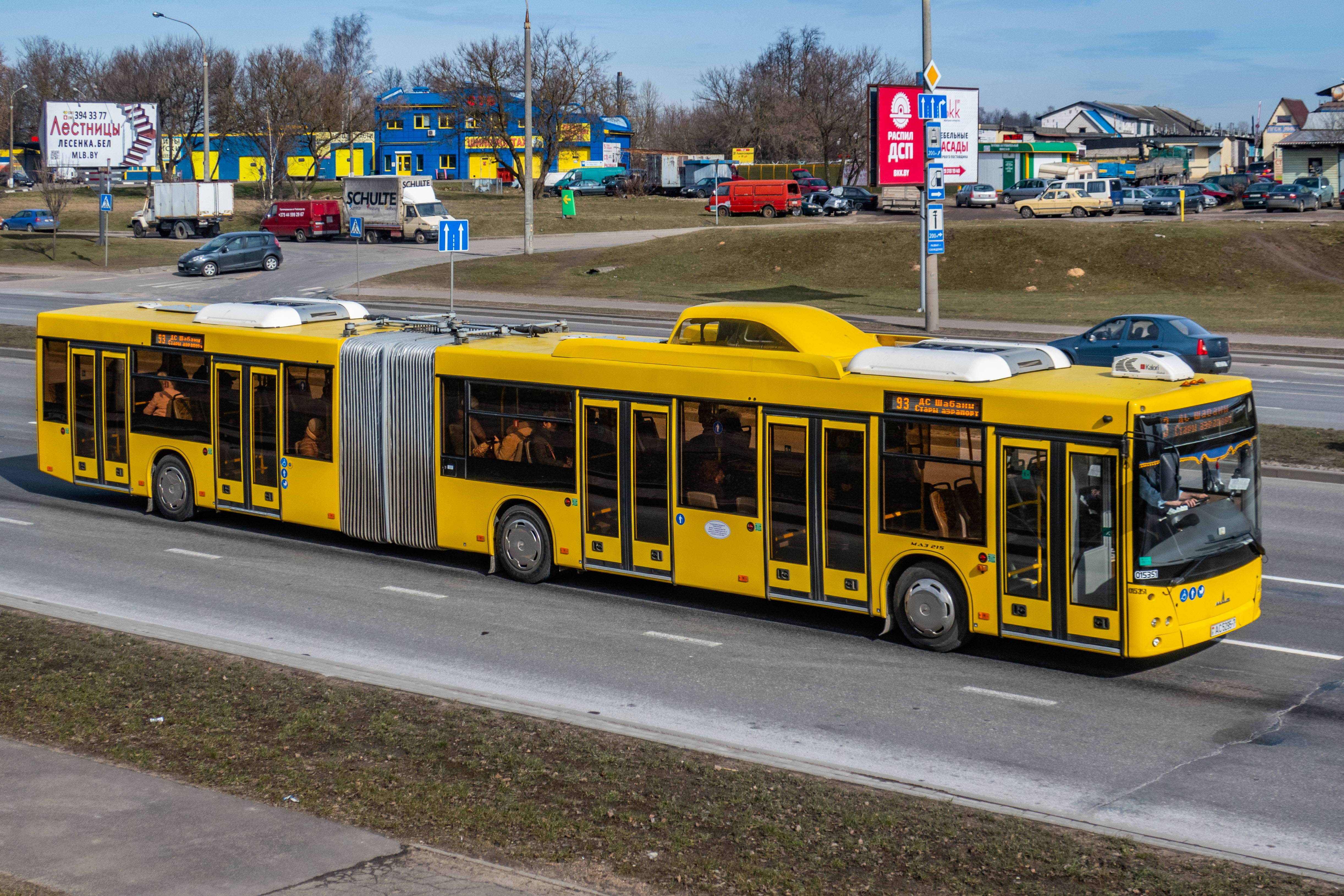 MAZ-215 bus. Minsk, Belarus